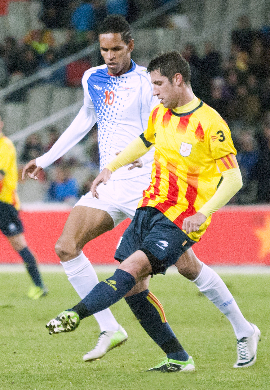 Cape Verdean international football player Mailó da Graça da Cruz and Catalonian Joan Capdevila during friendly match Catalonia vs. Cape Verde